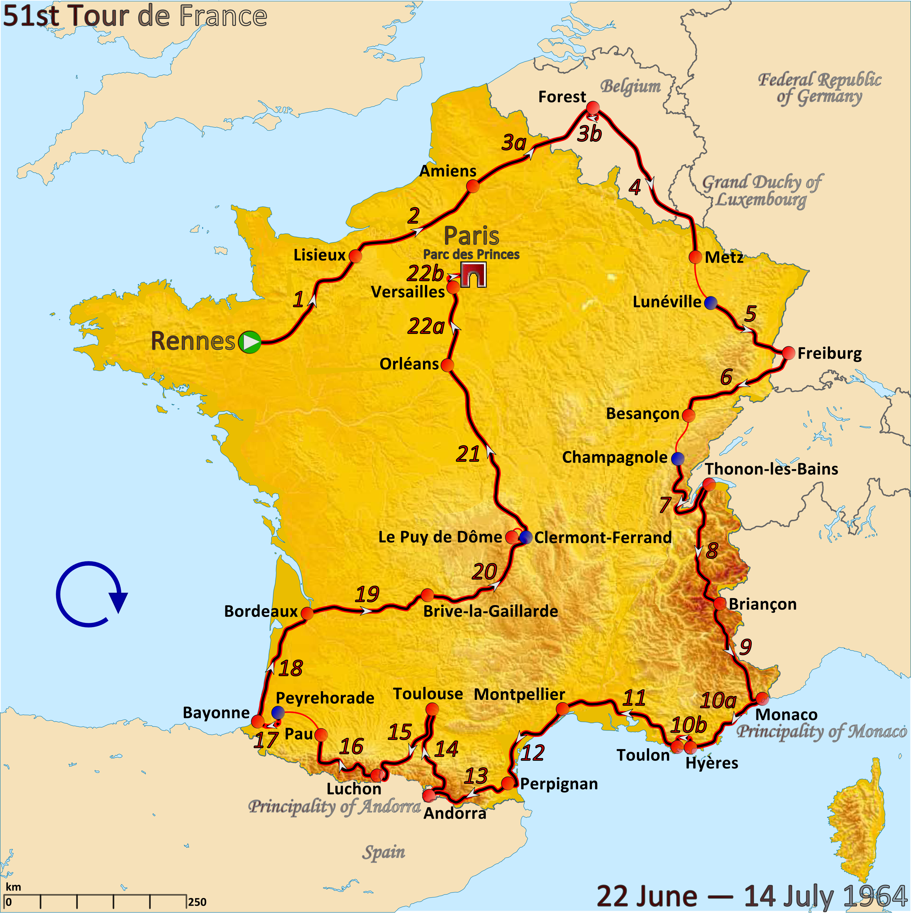 Route of the 1964 Tour de France created in Inkscape using accurate stage maps from touratlas.nl.